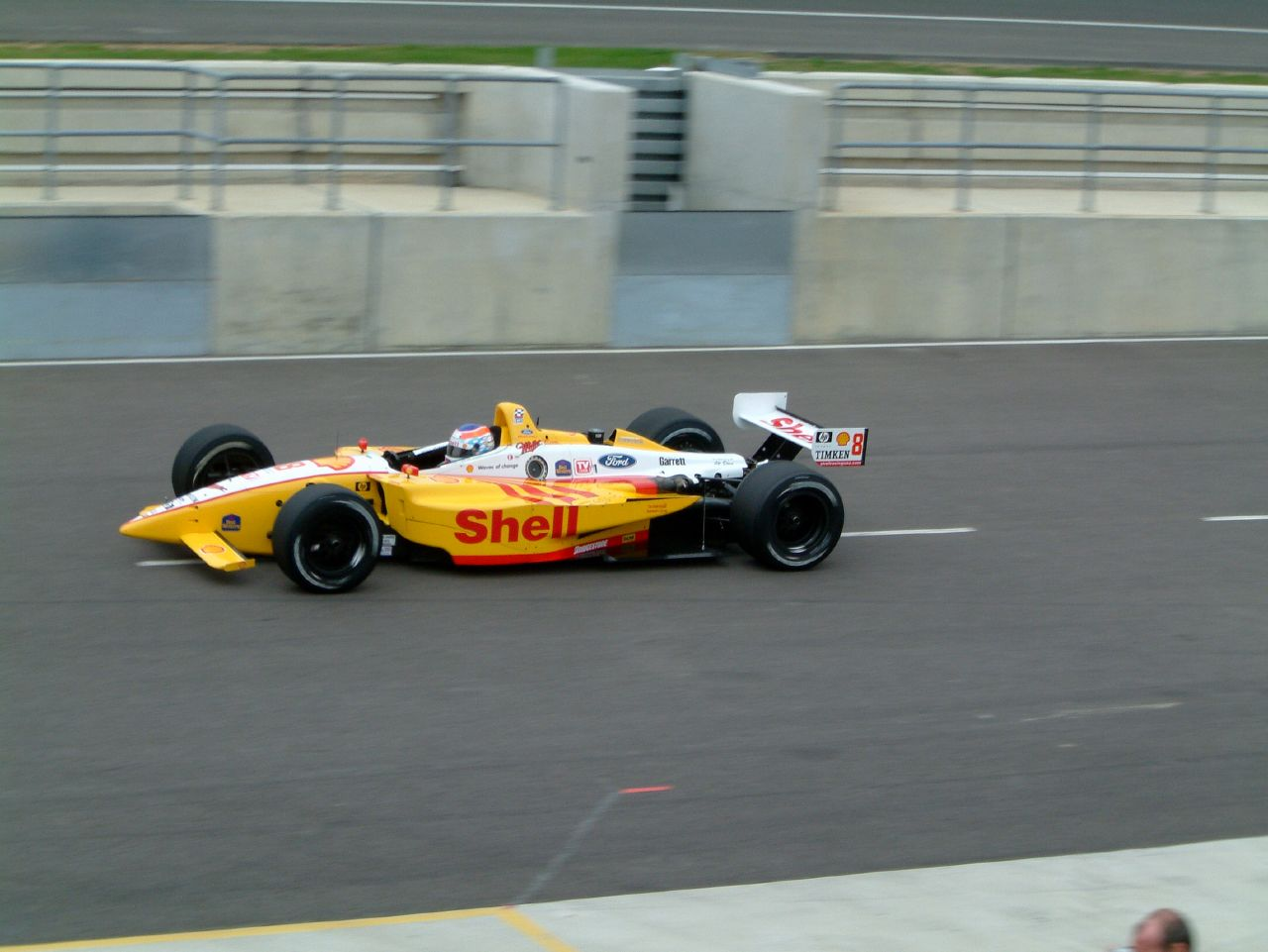 Jimmy Vasser driving for Team Rahal at the 2002 Sure For Men Rockingham 500